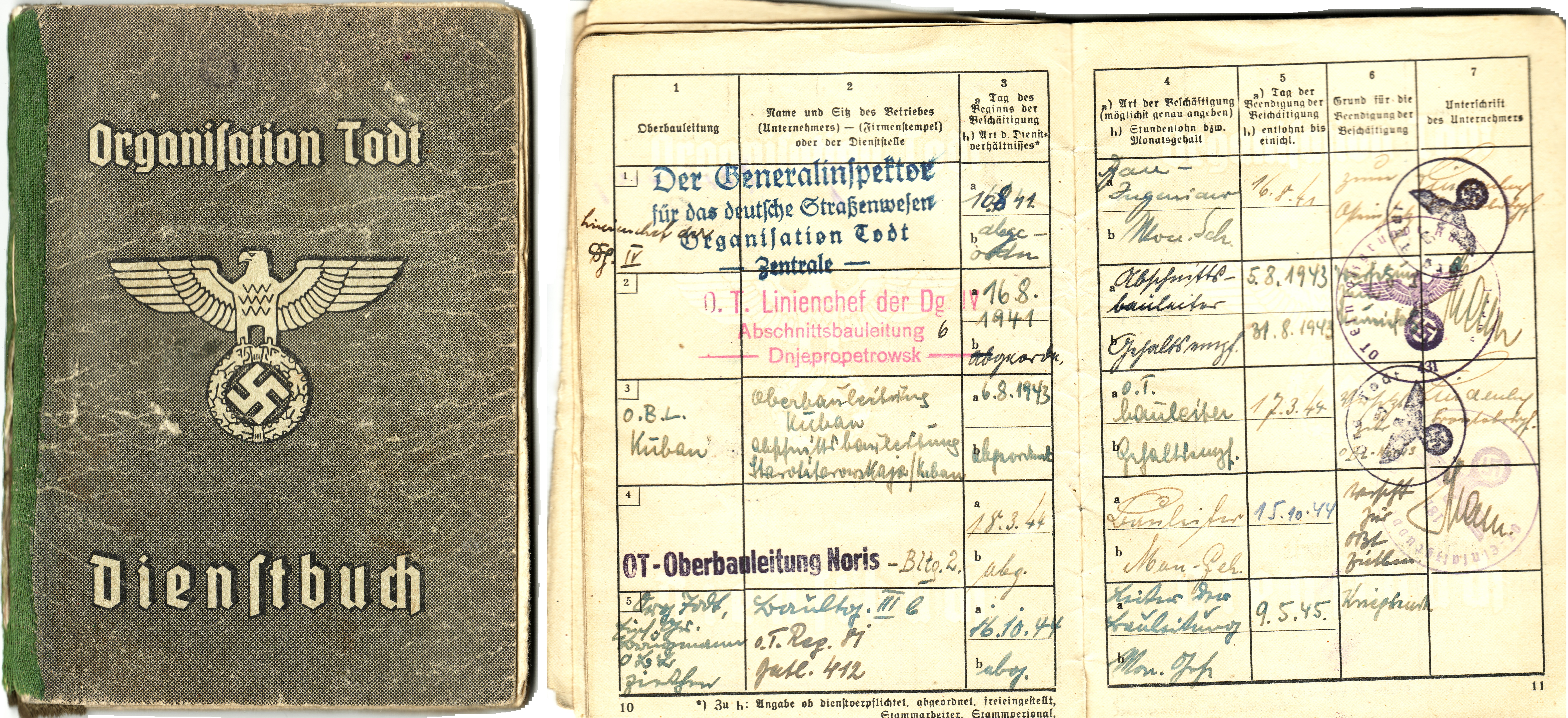 "Dienstbuch Organisation Todt": Personal log book of services of a construction engineer within Organisation Fritz Todt in Germany 1940-1945, services within group of duty Southern Russia.